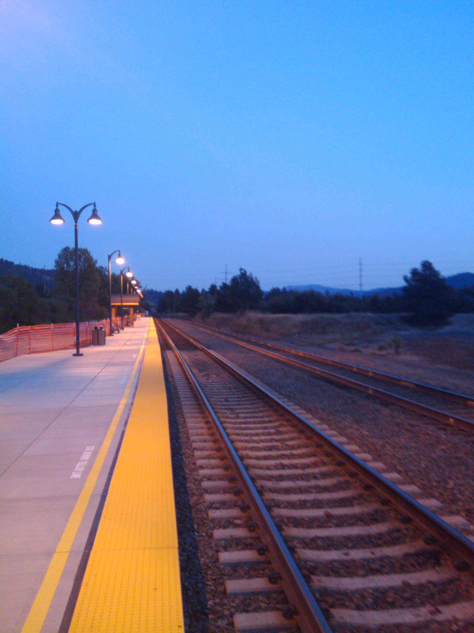 A view of the Leavenworth, WA Amtrak platform looking east